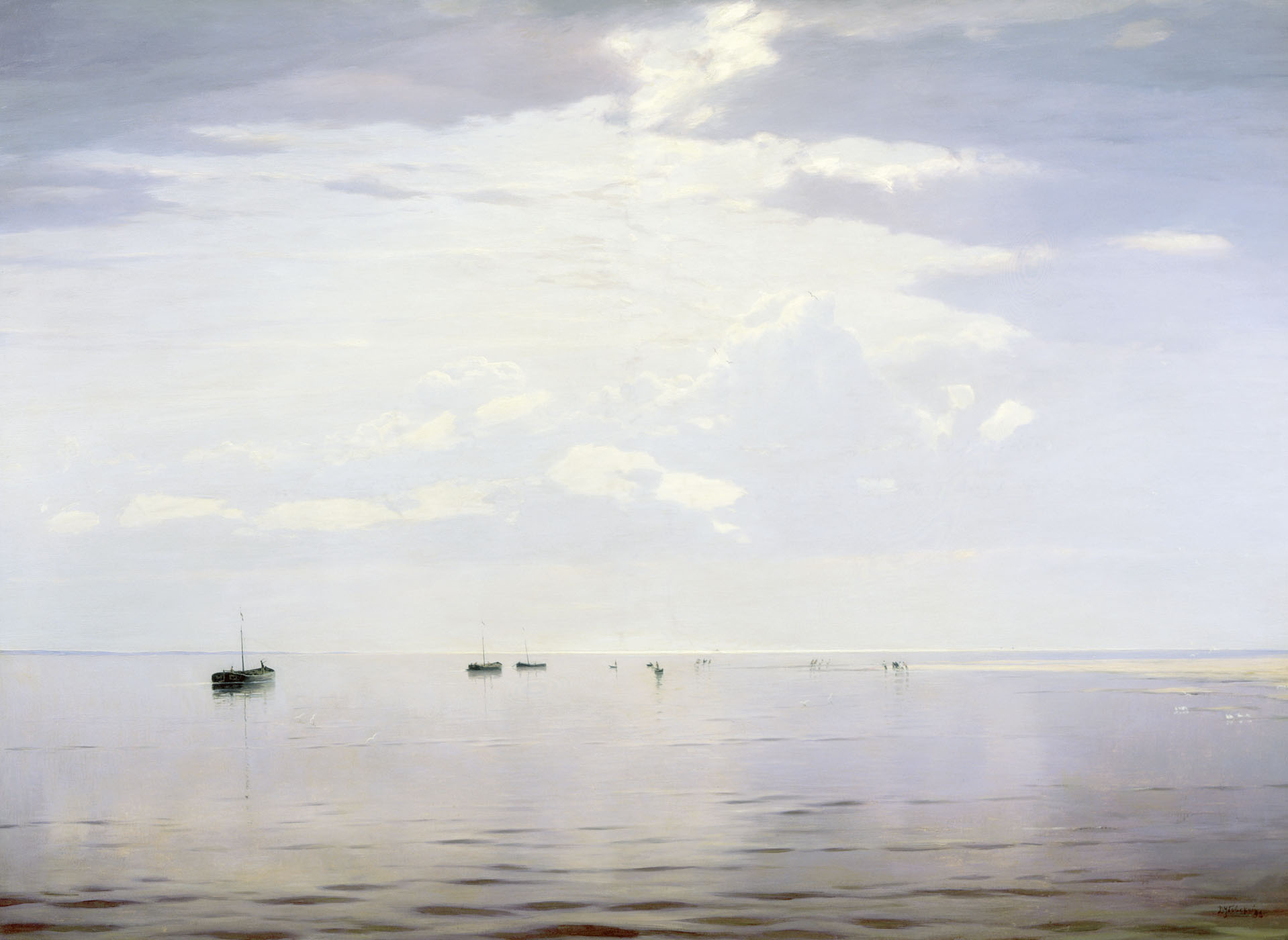 Near Volga River. 1892. Oil on canvas. 141,5х190,5 сm. Tretyakov Gallery, Moscow